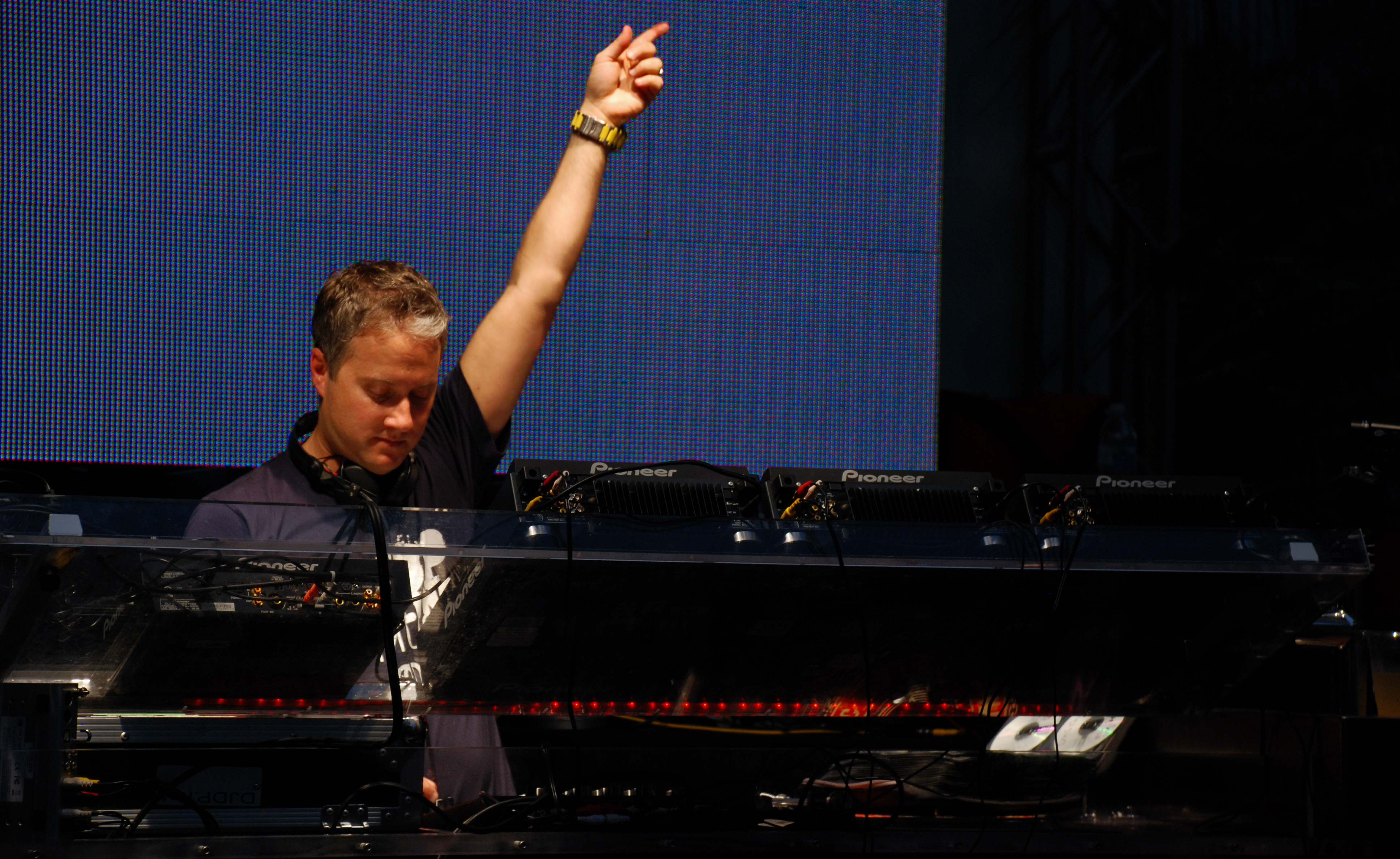 Robbie Rivera @ Winter Music Conference 2009